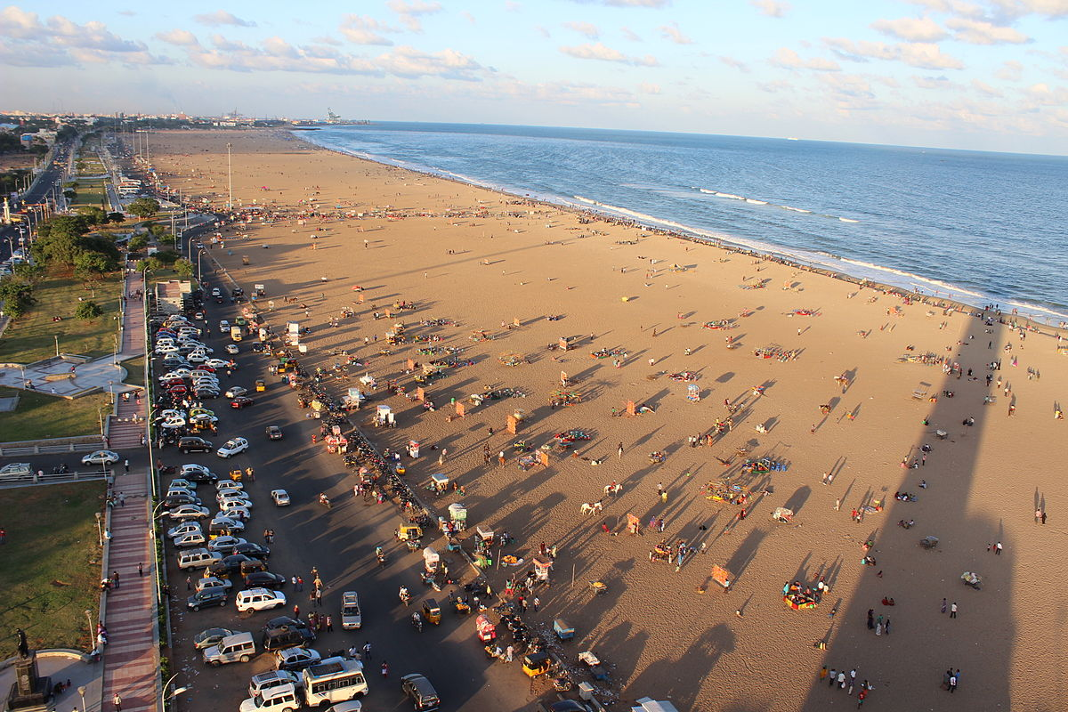 A view of Marina Beach, Tamilnadu